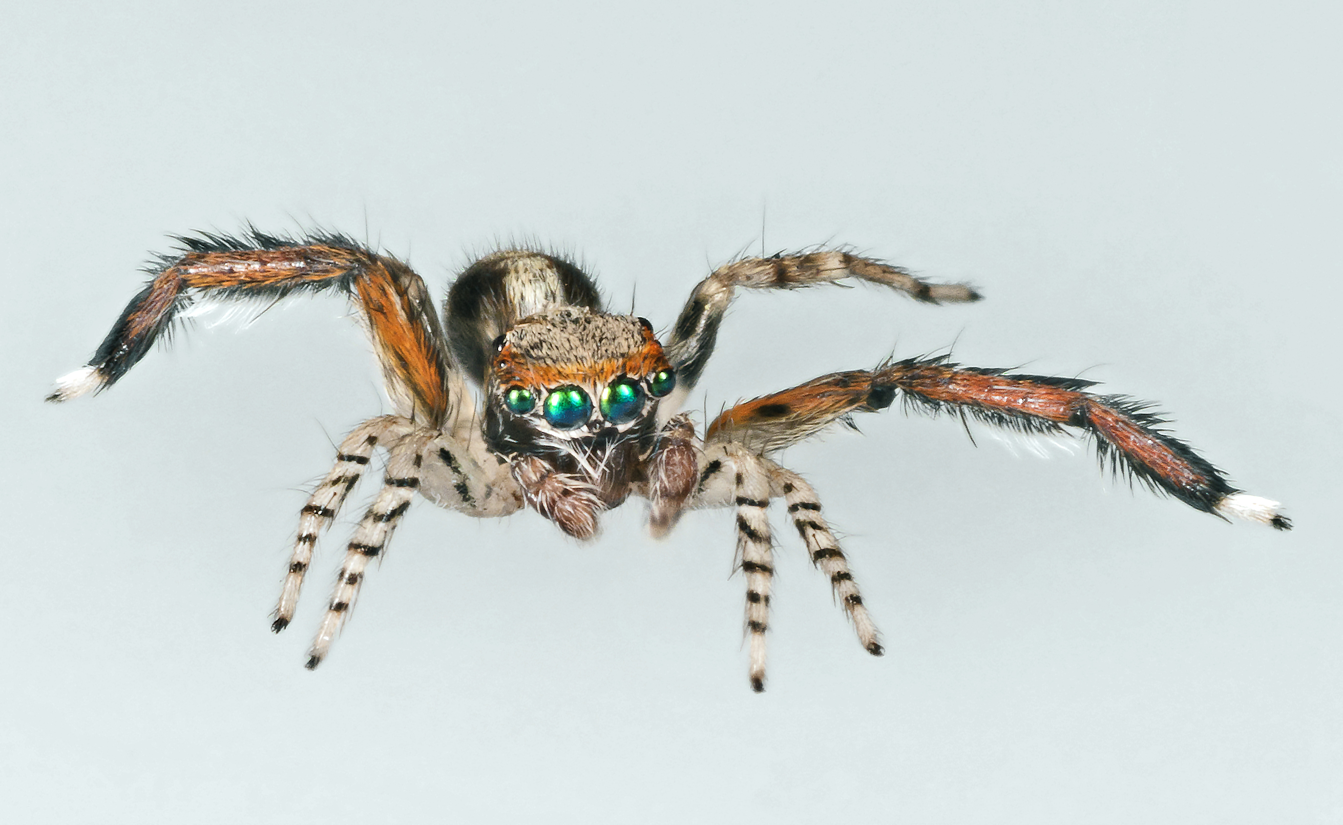 Saitis barbipes. Front view. Living animal. Size 3mm.